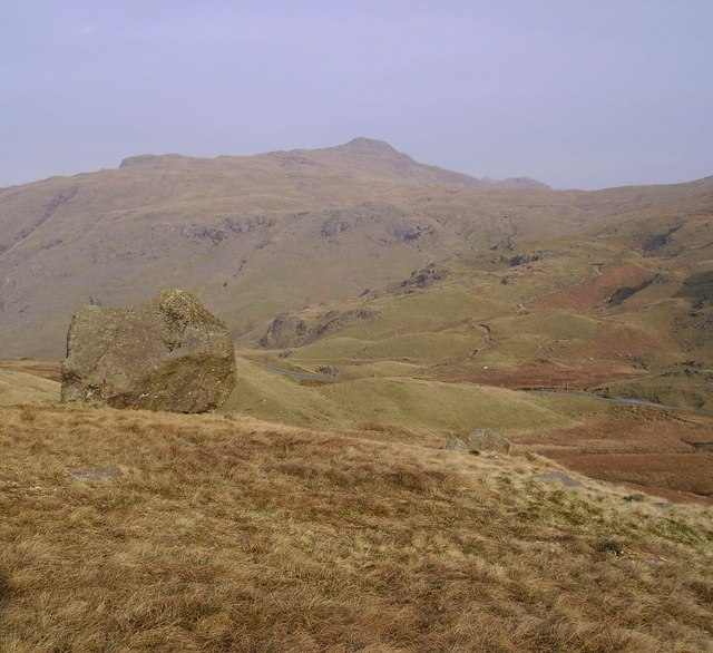 Wrynose Pass The famous Three Shires Stone just visible on the road. Picture taken from 'Lancashire'.